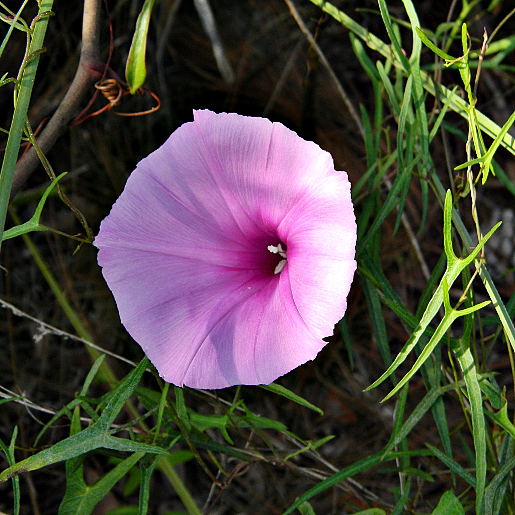 Ipomoea sagittata. The Glades Morning glory got its name (sagittata) from its striking arrow shaped leaves. The large blossoms of this native are visible from a great distance out in the wetlands. Sweetbay Natural Area. Another big pink morning glory commonly found in this area is the Railroad Vine, shown below.